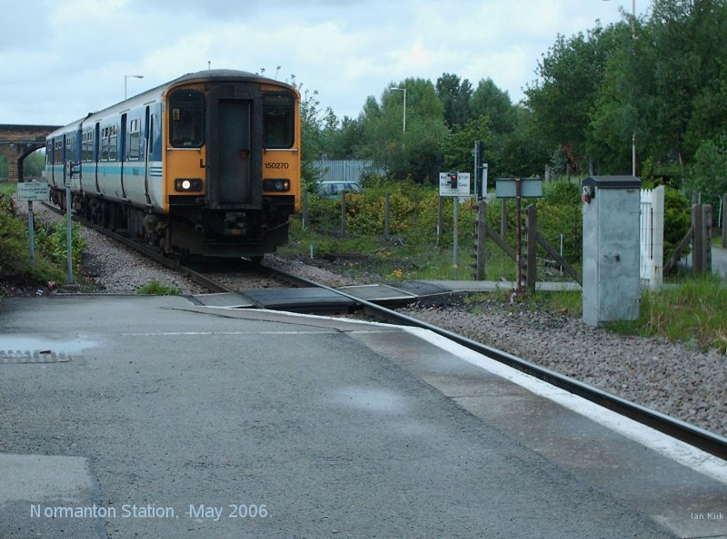 Normanton railway station, West Yorkshire. Platform 2